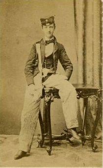 George I of Greece at young age, ca. 1860